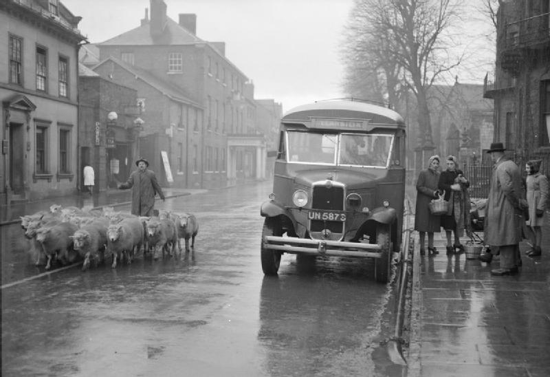 Country Bus- Travel and Transport in Oswestry, Shropshire, England, UK, 1944 A rainy day in Oswestry, Shropshire. A group of people arrive in town on the country bus (right) as a flock of sheep are herded down the main street on their way to Smithfield Market. The street is otherwise deserted.